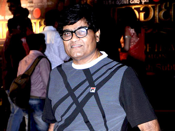 Actor Ashok Saraf at premiere of Marathi film Bal Gandharva.